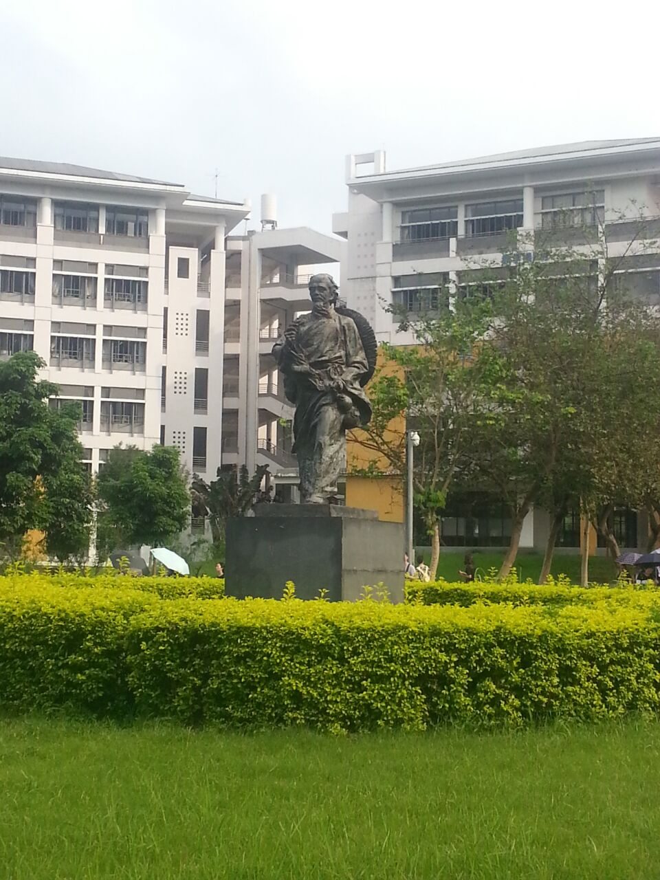 the statue of the famous Chinese doctor Hua Tuo in GDMU campus